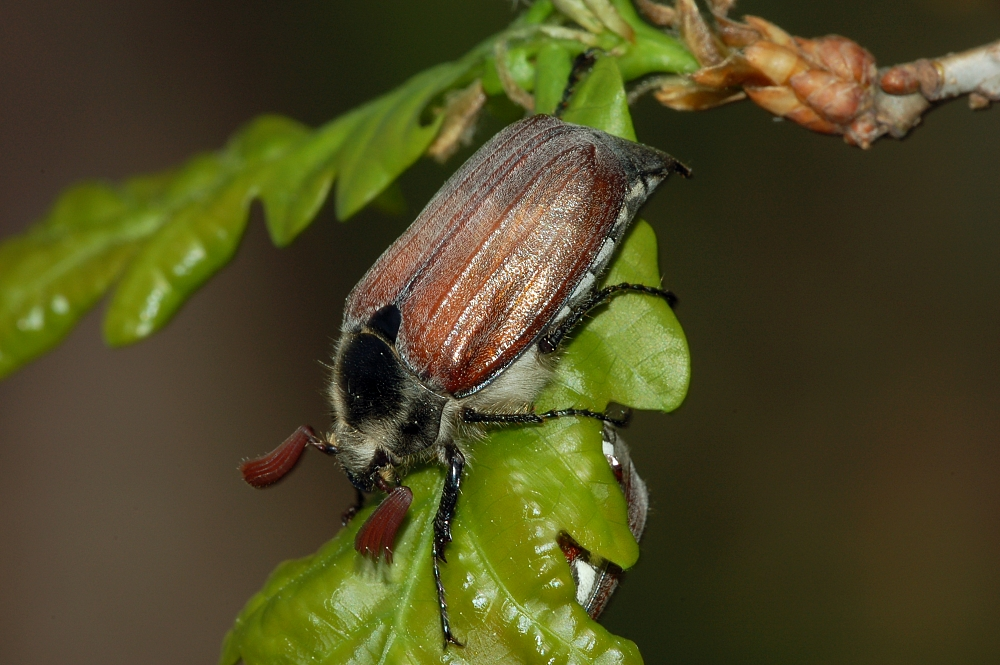 Melolontha hippocastani, Darmstadt, Germany